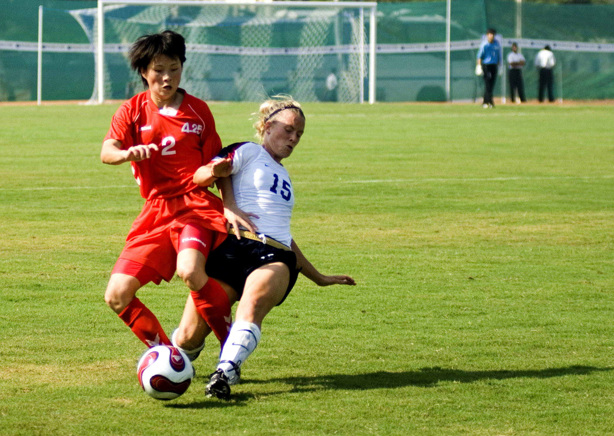 Yong Ok Jang from the Democratic Peoples Republic Korea and U.S. Army Capt. Randee Farrell fight for possession of the ball during the Military World Games' first women's soccer match in Hyderabad, India, Oct. 14. The Conseil Internationale du Sport Militaire's Military World Games event is the largest international military Olympic-style event in the world. In this year's fourth edition of the Games, 103 countries and more than 5,000 athletes are competing Oct. 14 to 21 in boxing, diving, soccer, handball, judo, military pentathlon, parachuting, sailing, shooting, swimming, volleyball and track and field. The purpose of the Military World Games is to promote "friendship through sport."(U.S. Air Force photo/Tech. Sgt. Cecilio Ricardo Jr.)